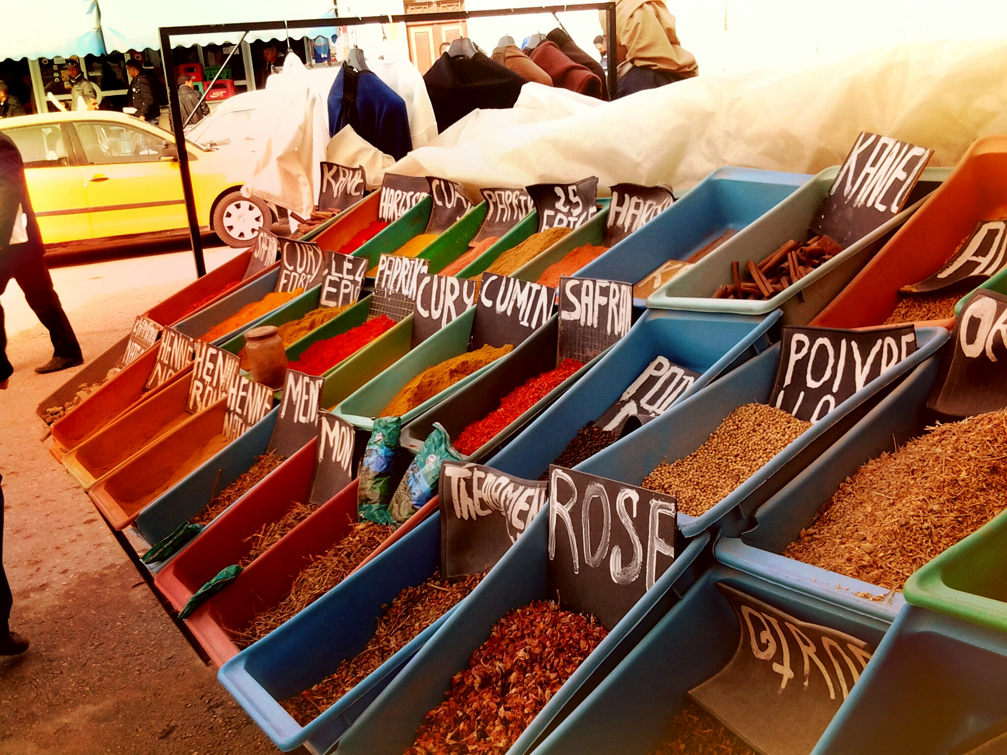 Spice shop at Douz This is an image of food from Tunisia